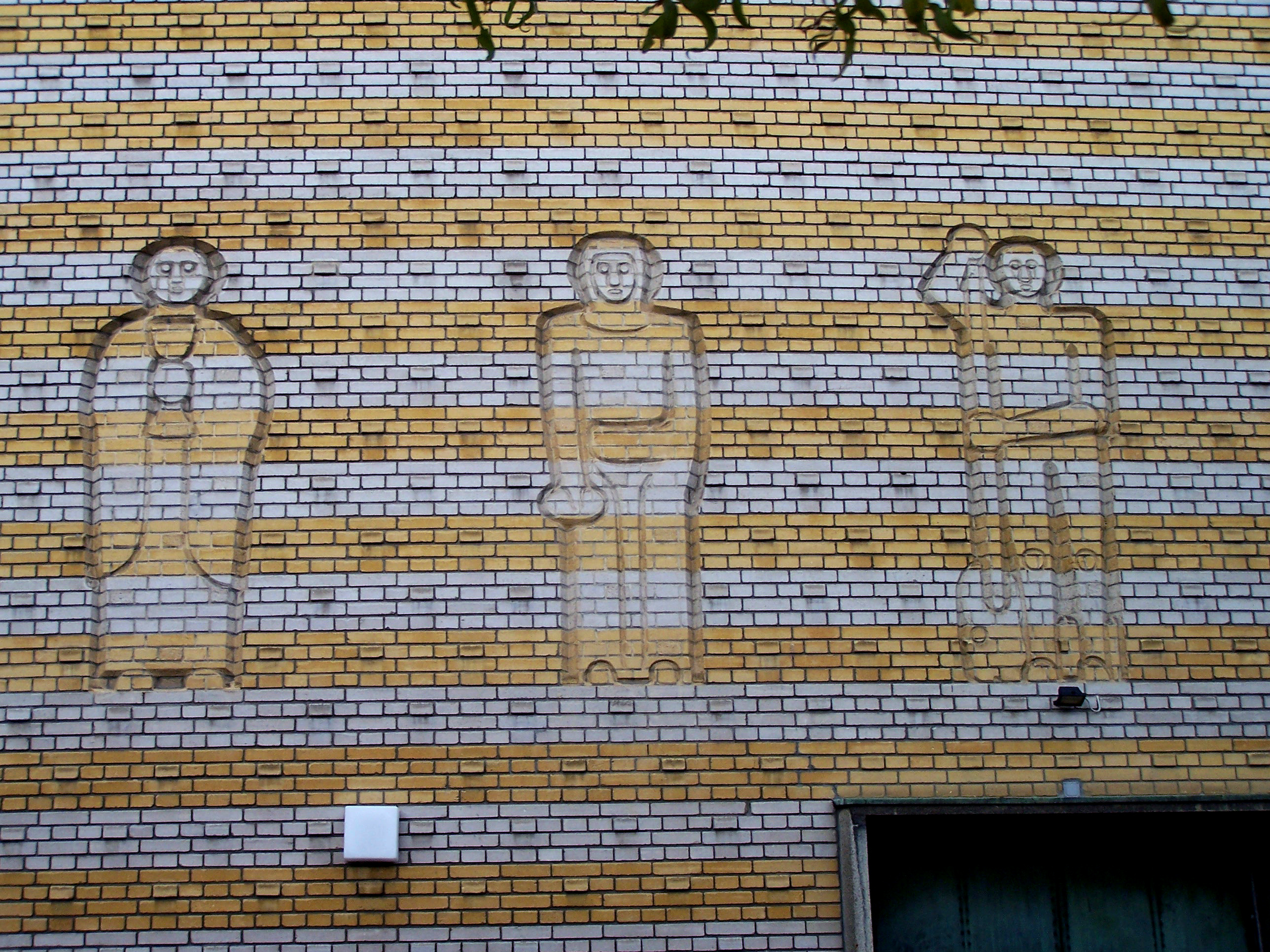 Part of an relief showing saints over the entrance of the All Saints Church in Frankfurt am Main-Ostend